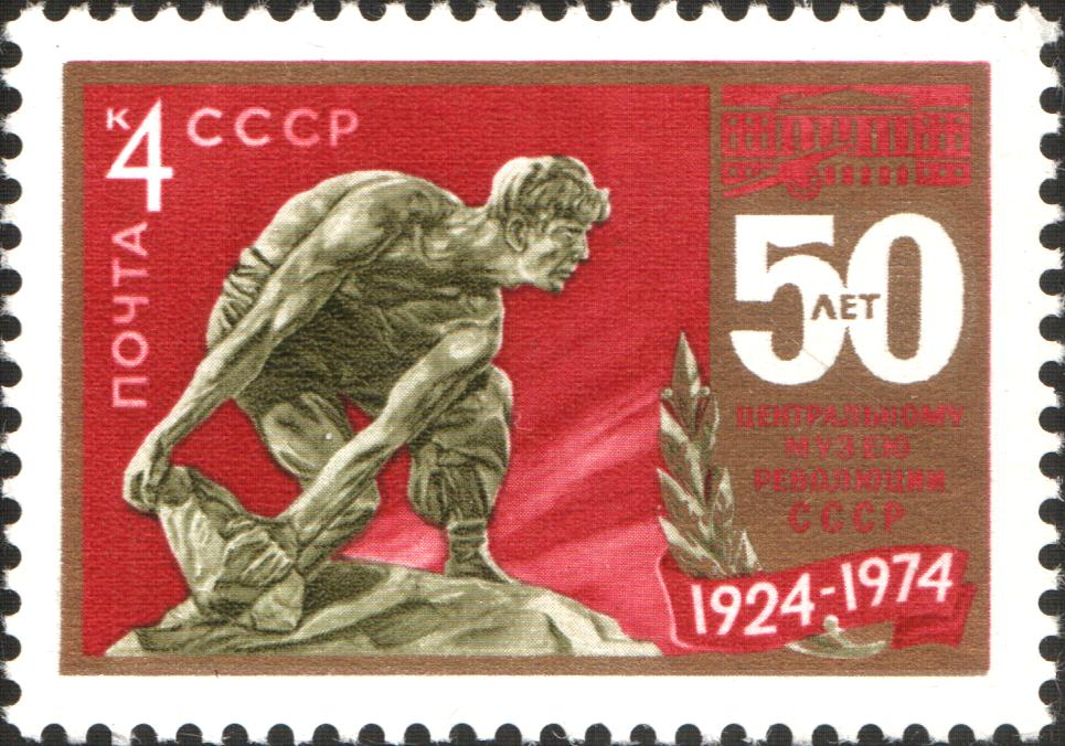 USSR stamp